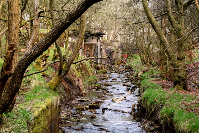 The River Irwell at the Weir area of Bacup, in Lancashire, England.